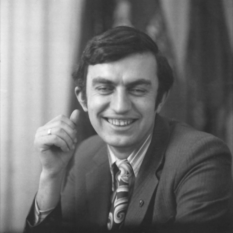 Gheorghe Duca during student's times (the beginning of 70th years).